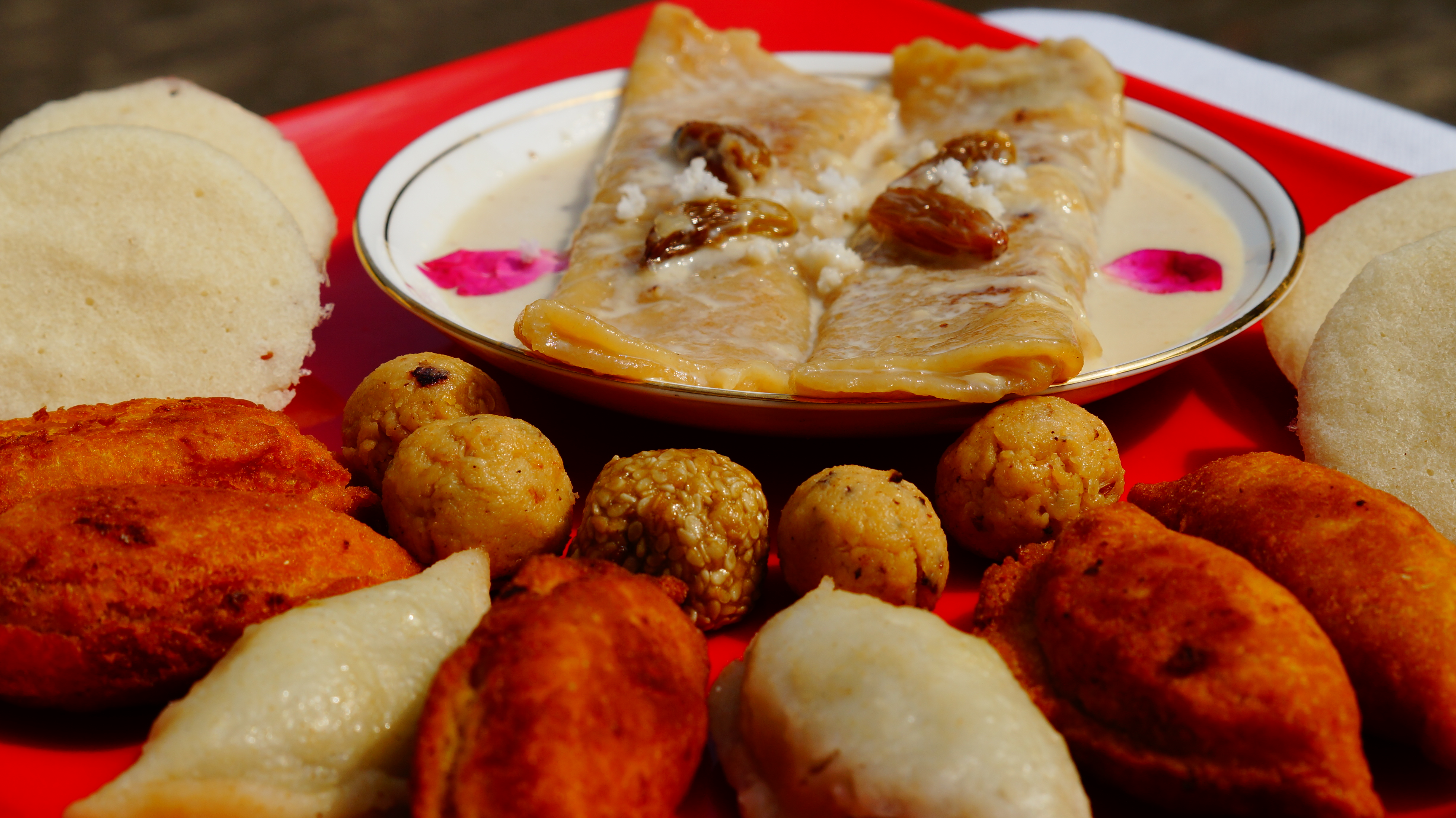 Poush Sankranti (Makar Sankranti) in Bengal is never complete without the Pulis and Pithes